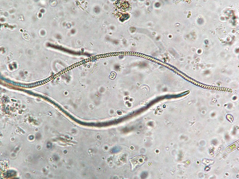 This work is free and may be used by anyone for any purpose. If you wish to use this content, you do not need to request permission as long as you follow any licensing requirements mentioned on this page.